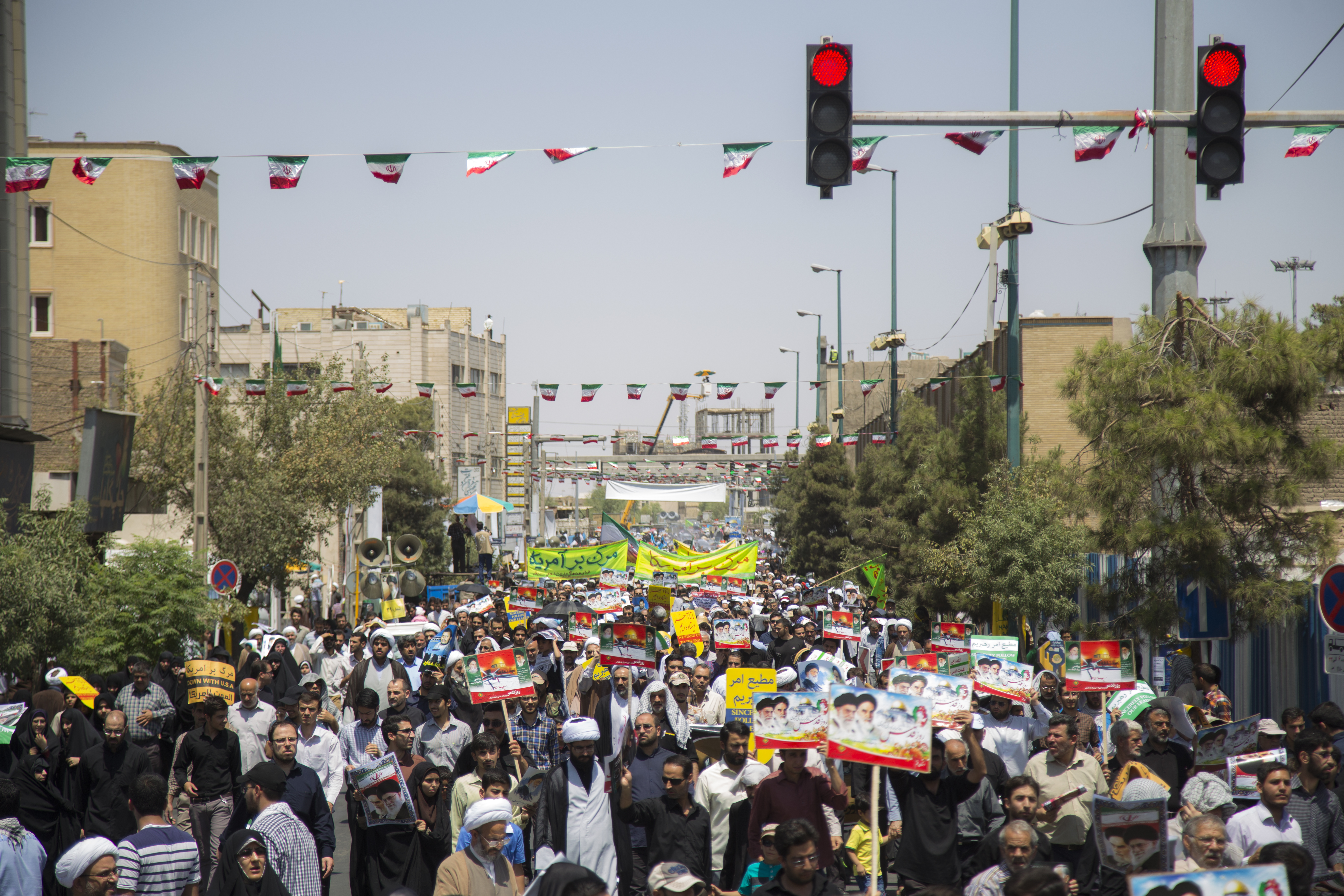 Quds Day officially called International Quds Day is an annual event held on the last Friday of Ramadan that was initiated by the Islamic Republic of Iran in 1979 to express support for the Palestinians and oppose Zionism and Israel, as well as Israel's occupation of Jerusalem and Jewish settlements in Israeli-occupied territories .